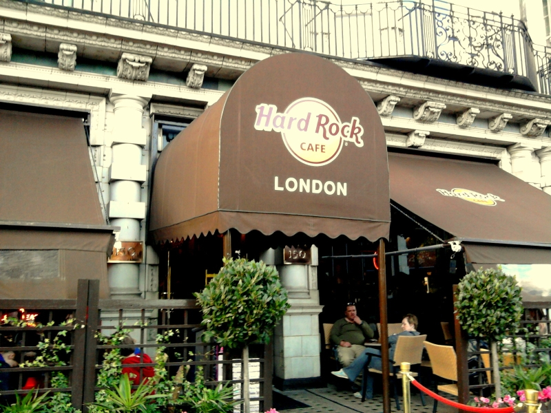 Hard Rock Cafe entrance, London